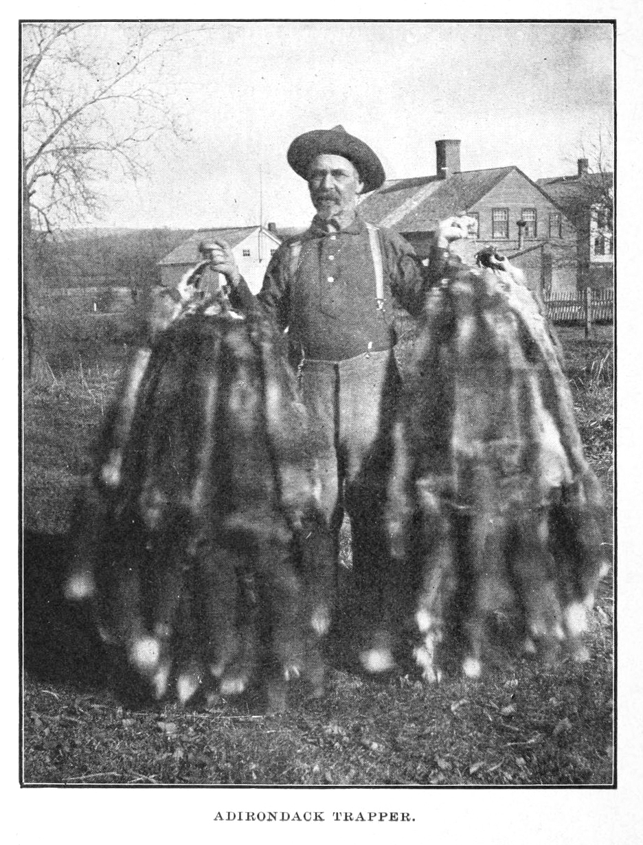 Adirondack Trapper holding fox pelts.